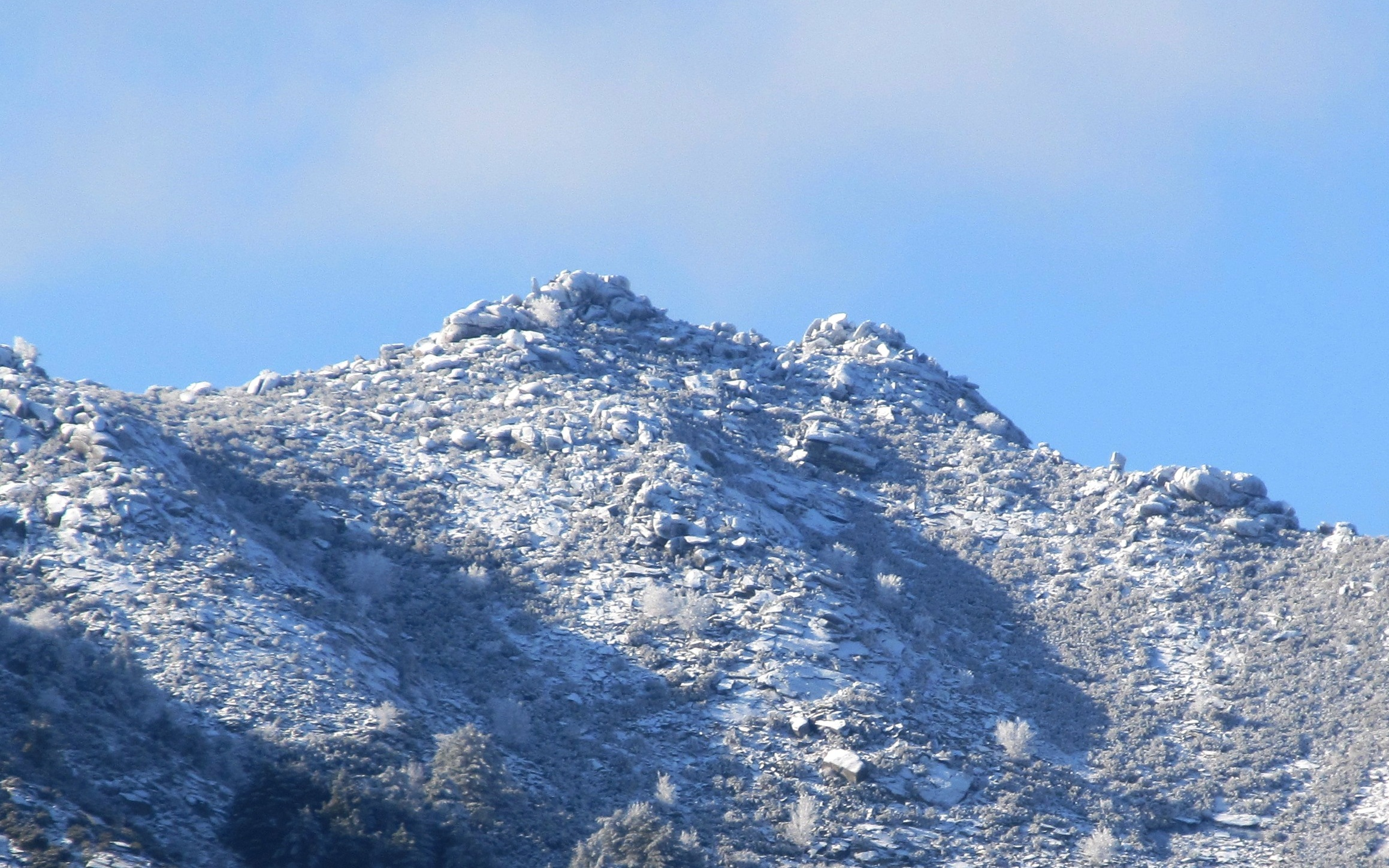 elba island